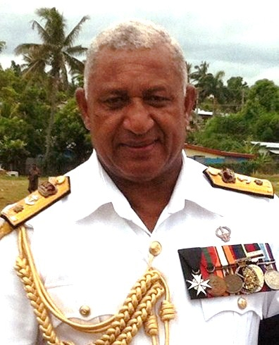 cropped pic of Bainimarama on a trip to Lautoka earlier today